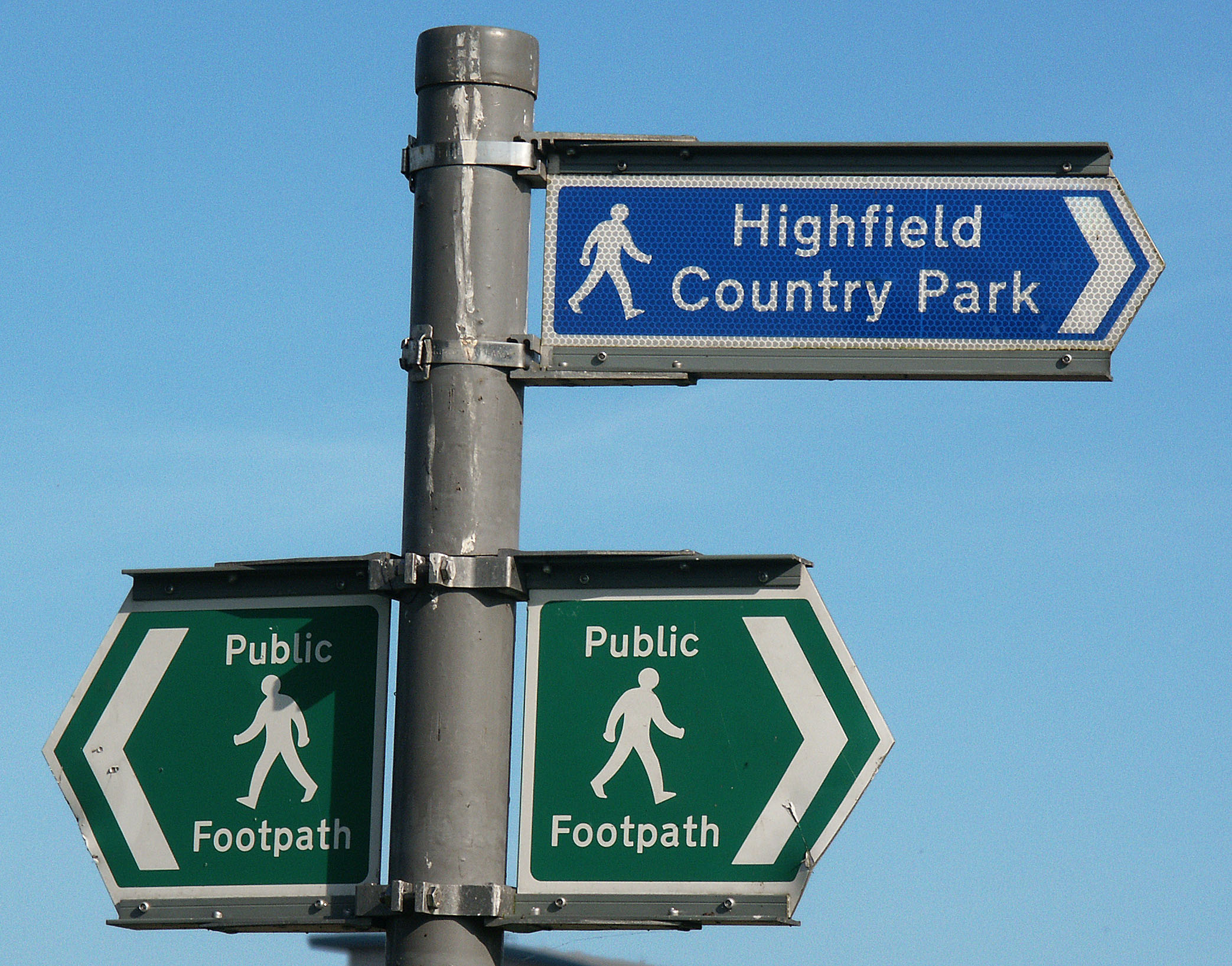 Sign leading to Highfield Country Park, Levenshulme, Greater Manchester.